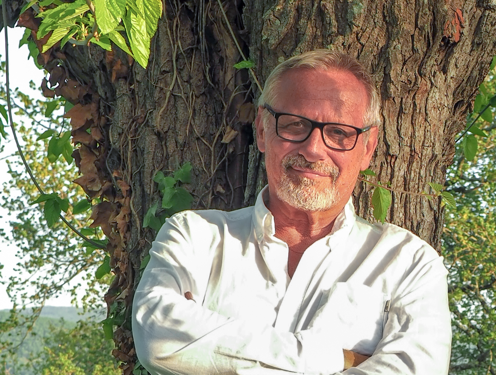 German Singer-Songwriter Konstantin Wecker